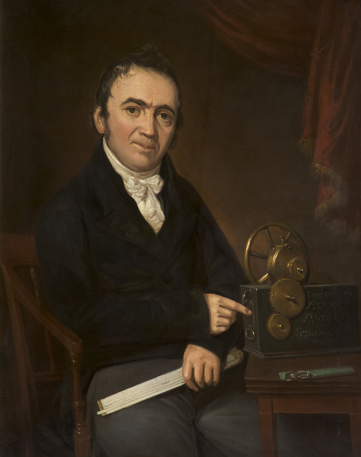 Portrait of Joshua Routledge (1773-1829)